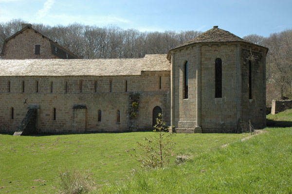 Comberoumal priory. France